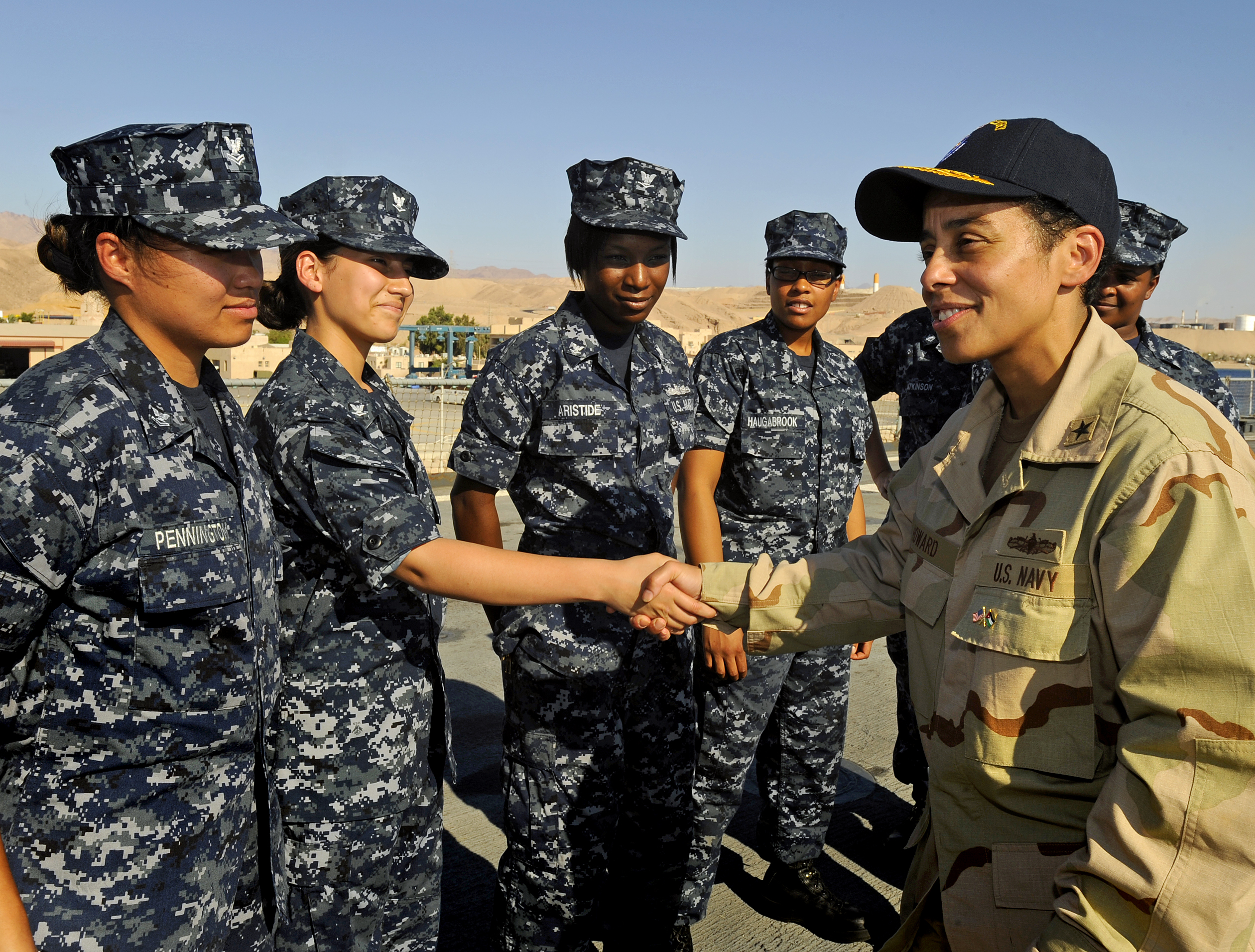 RED SEA (July 7, 2009) Rear Adm. Michelle Howard, commander, Expeditionary Strike Group (ESG) 2, visits with junior enlisted sailors during a visit to the amphibious dock landing ship USS Fort McHenry (LSD 43). Fort McHenry made a port visit in the U.S. 5th Fleet area of responsibility. Howard discussed with Sailors current operations and challenges within the theater.